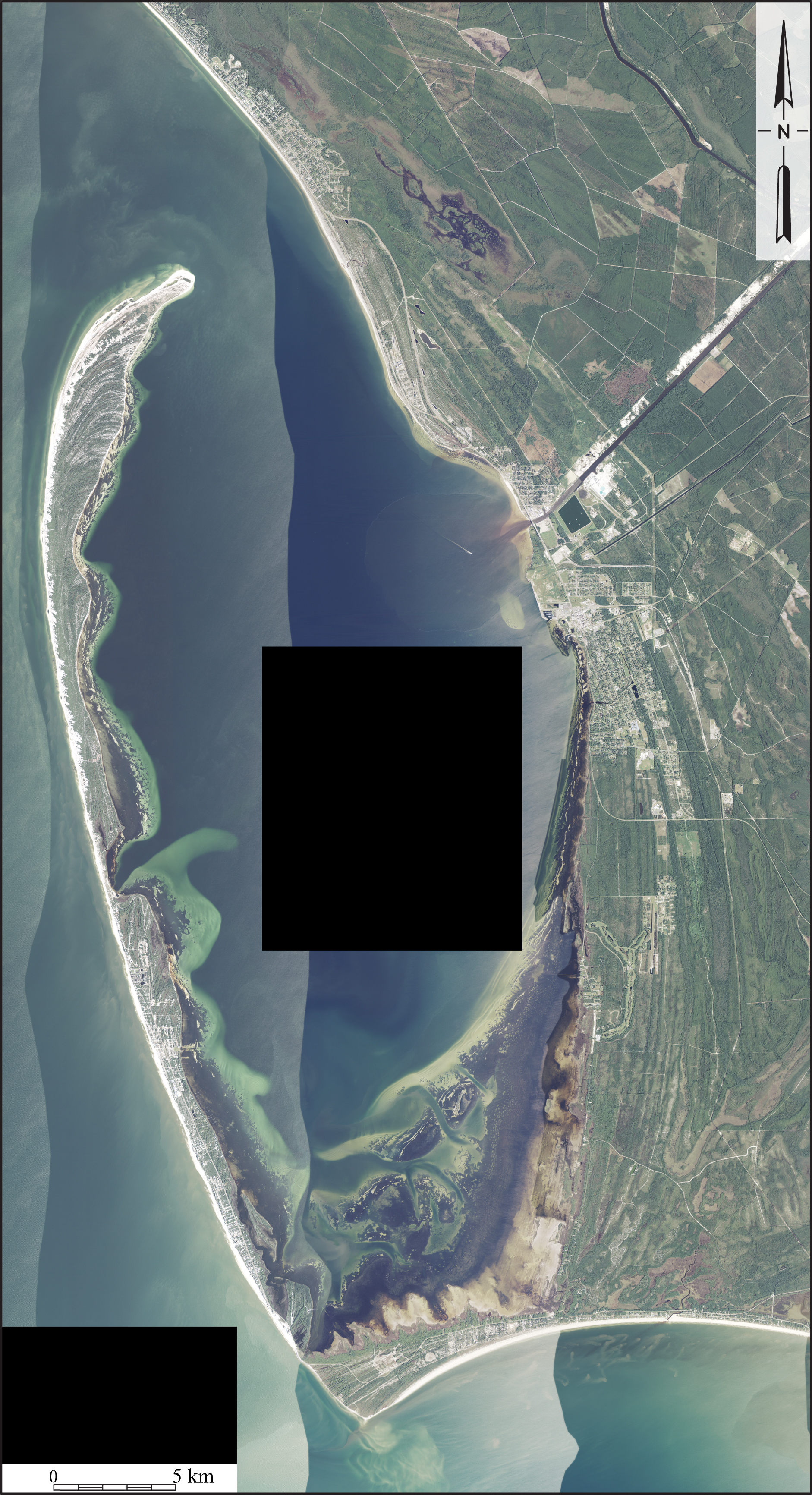 Aerial image of Saint Joseph Bay, Saint Joseph Peninsula, and Port St. Joe, Gulf County, Florida. latitude 29° 47” 44.34’, longitude -85° 21” 48.56’. Image shows narrow strandplain, which exhibits well-developed beach ridges, along east side of Saint Joseph Bay. Saint Joseph Peninsula is a prominent spit, which exhibit well-developed beach ridges that shows the accretion of the spit with time. Created from USDA/FSA Aerial Photography Field Office 2010 NAIP digital aerial orthophoto mosaic for Gulf County, Florida, using global Mapper 12.0.